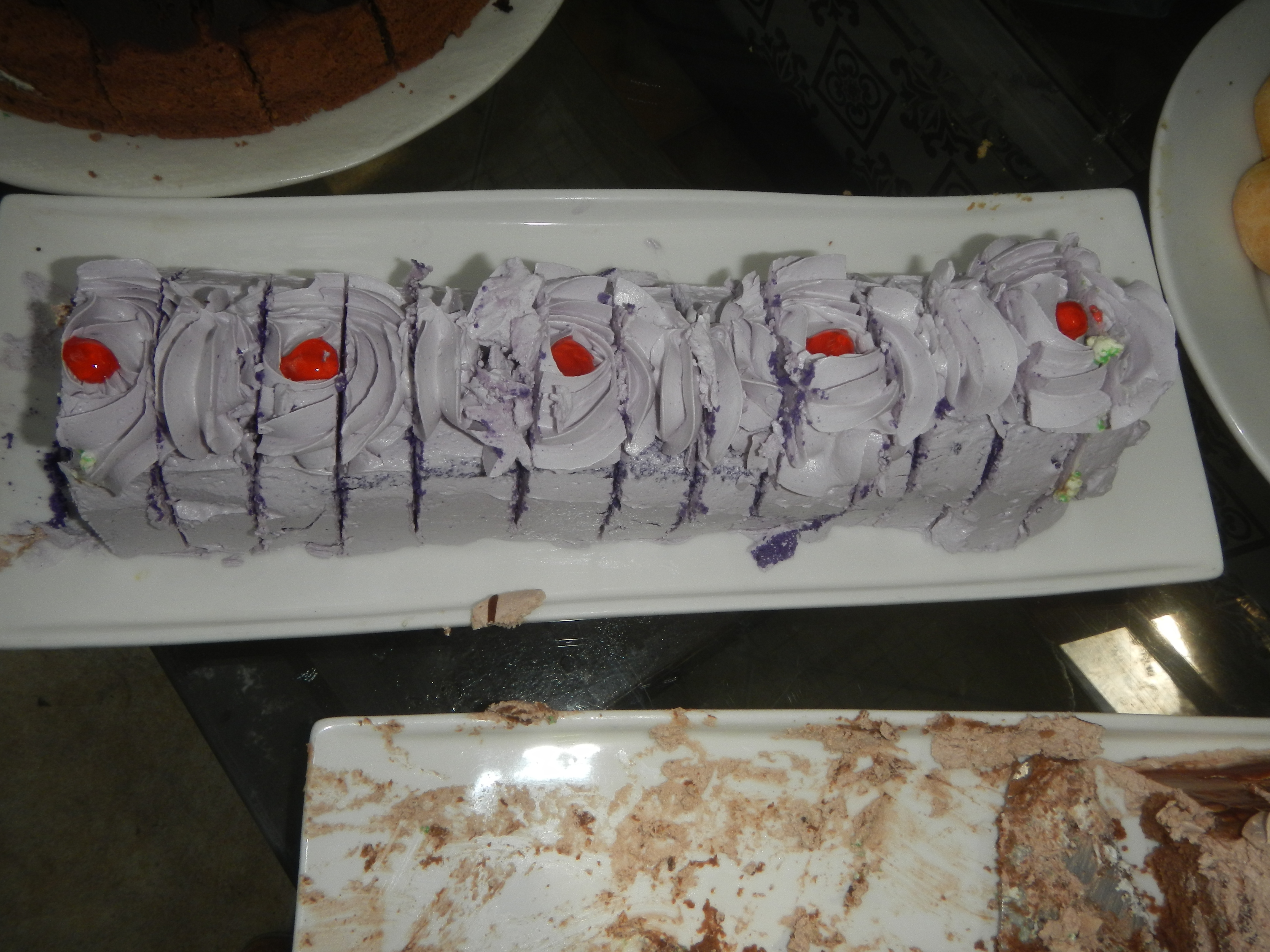 The Pastry Chef Desert Buffet Cakes and Pastries (Longos, Pulilan, Bulacan) Cafe+Bakeshop+Restaurant Buffet All-you-can-eat (AYCE) in Barangay Longos 14°53'40"N 120°51'56"E, Pulilan, Bulacan (Note: Judge Florentino Floro, the owner, to repeat, Donor Florentino Floro of all these photos hereby donate gratuitously, freely and unconditionally all these photos to and for Wikimedia Commons, exclusively, for public use of the public domain, and again without any condition whatsoever).